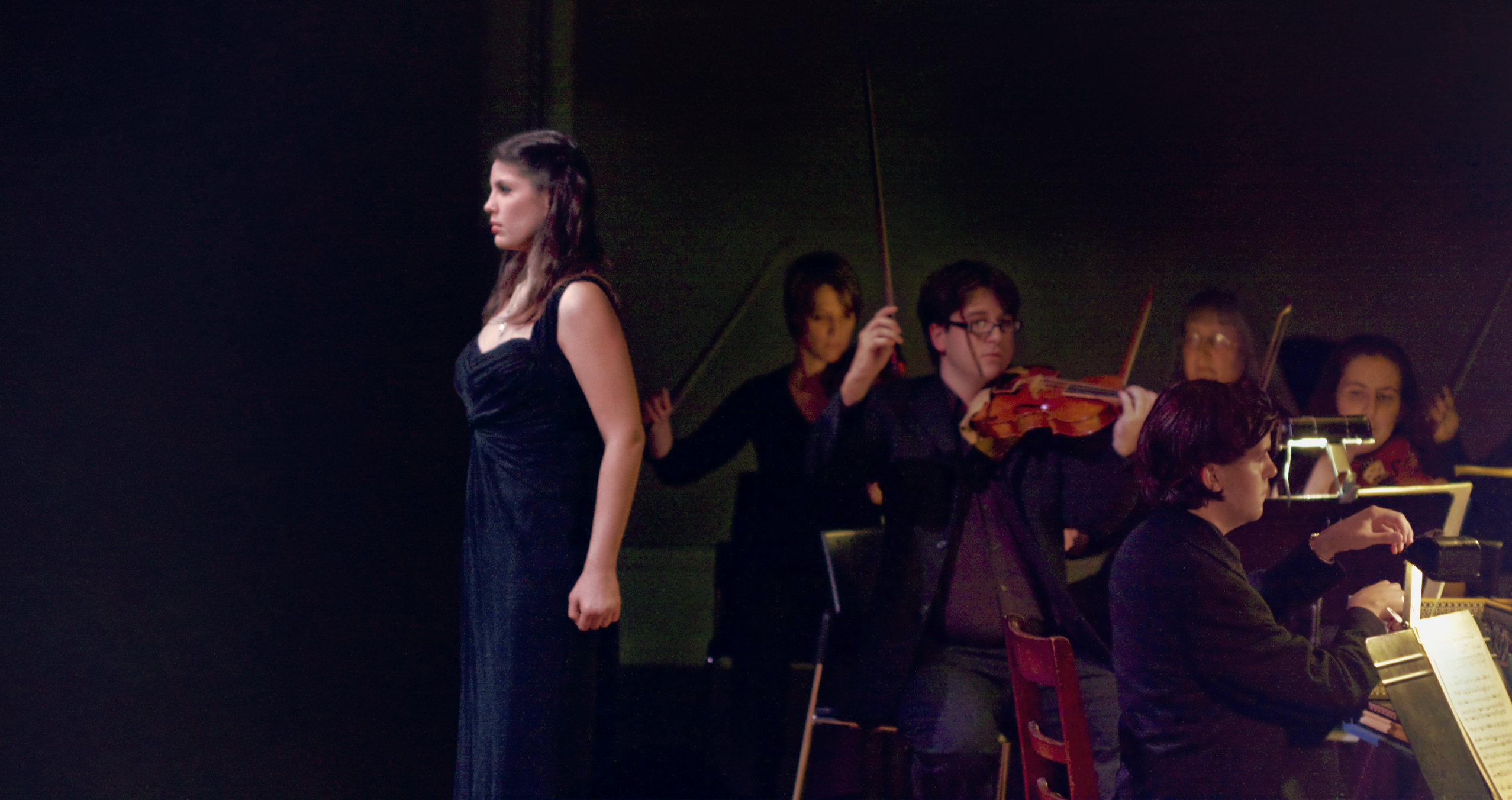 Soprano Megan Marie Hart sings an aria by George Frideric Handel in the Bourbon Baroque concert Thunder and Dance, with founders Nicolas Fortin (violin, 3rd from left) and John Austin Clark (harpsichord, front) on Saturday, September 20, 2008 in Louisville, Kentucky. Bourbon Baroque is a period instrument ensemble based in Louisville, performing works from the 17th and 18th centuries.